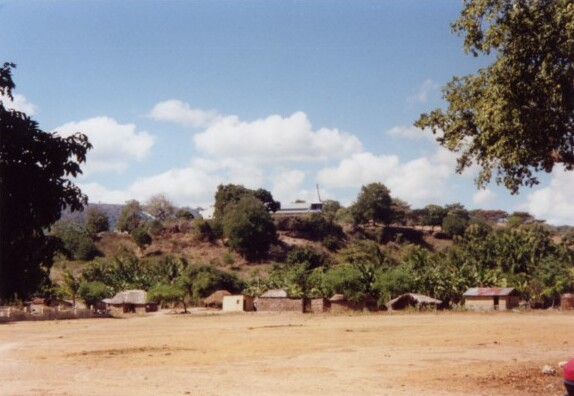 Photo by J. Patrick Fischer Village of Lautém/Timor-Leste on 24th June 2002